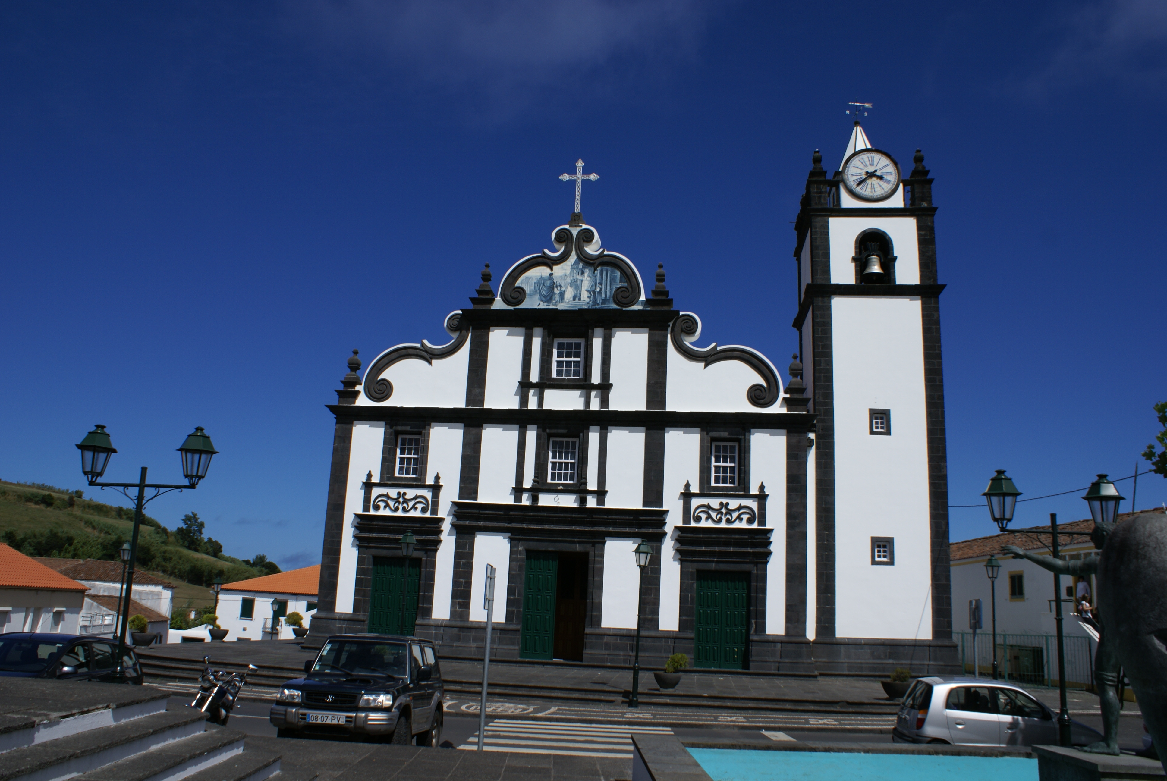 Façade of Church of Nossa Senhora da Apresentação, Capelas, Ponta Delgada, São Miguel (Azores), Portugal